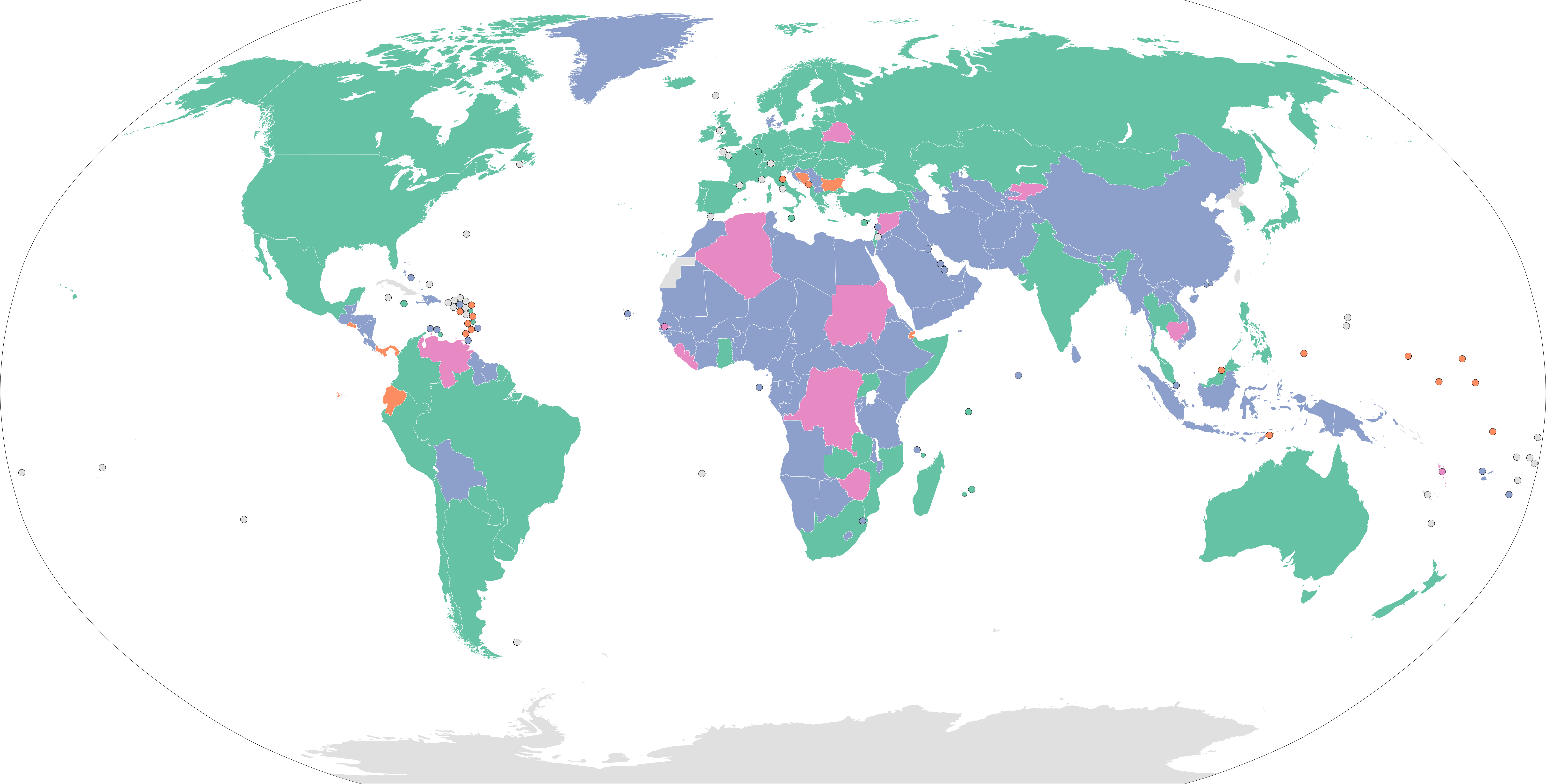 Own work, based on File:Exchange_rate_arrangements_map.svg Nils Tycho, data from imf report 2018